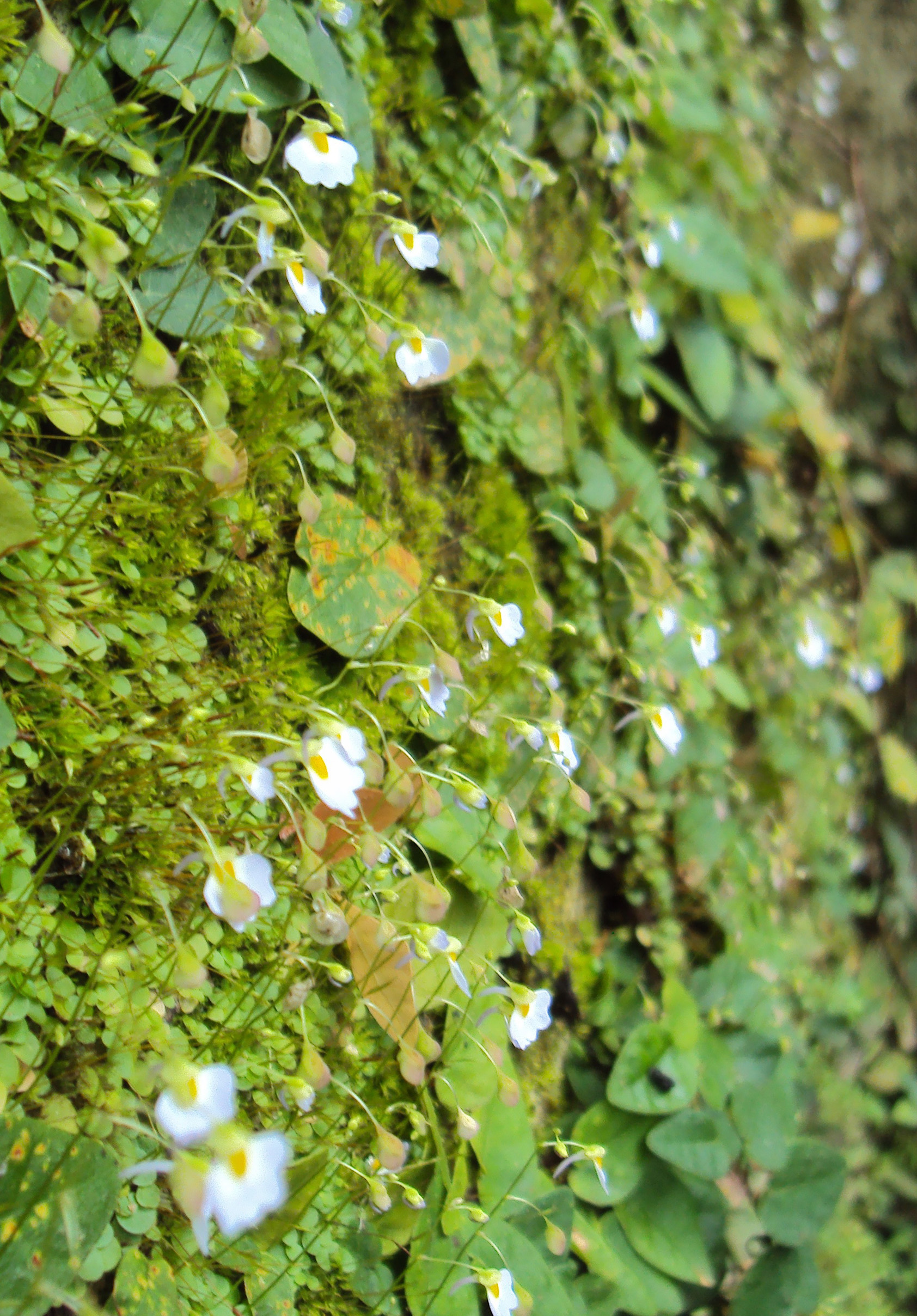 Utricularia striatula